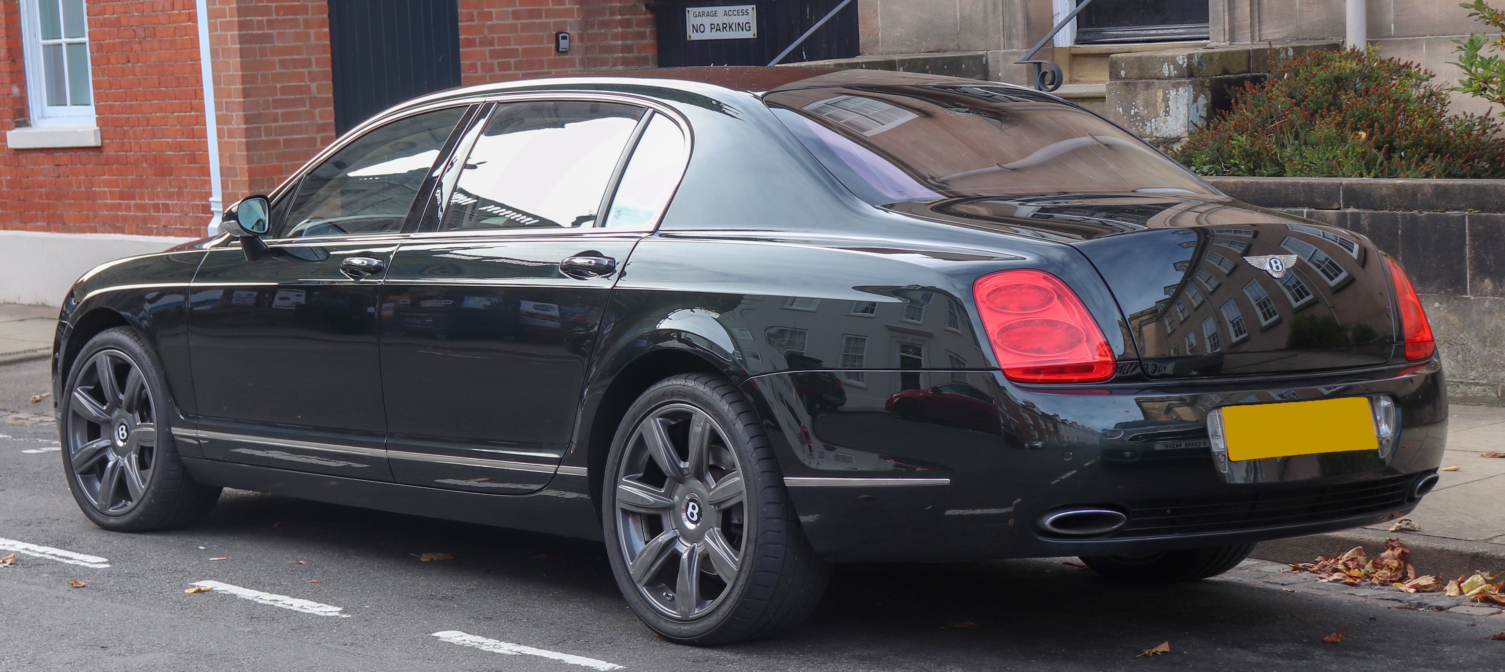 2005 Bentley Continental Flying Spur Automatic 6.0 Rear Taken in Warwick